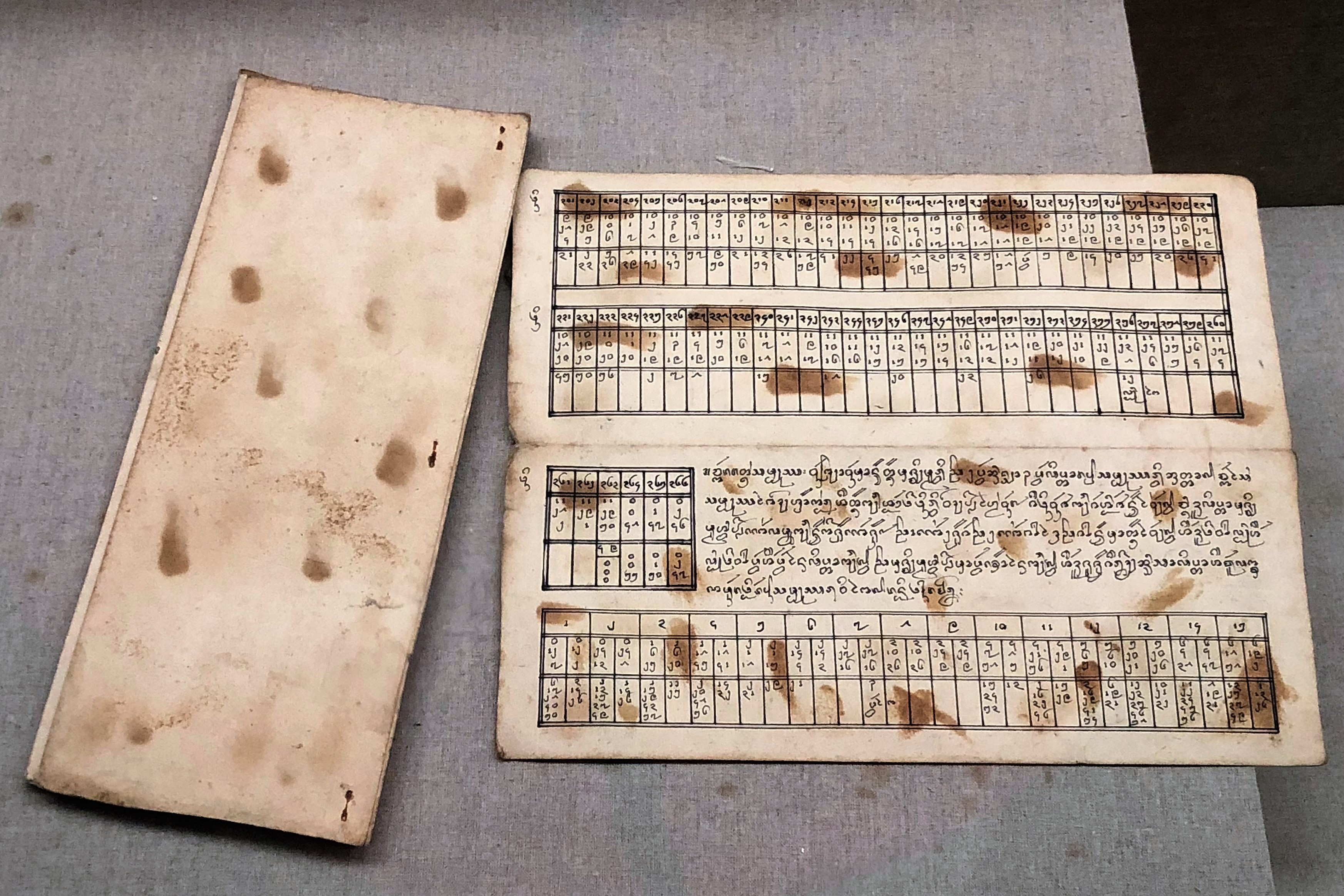 Astronomy and Clendar.